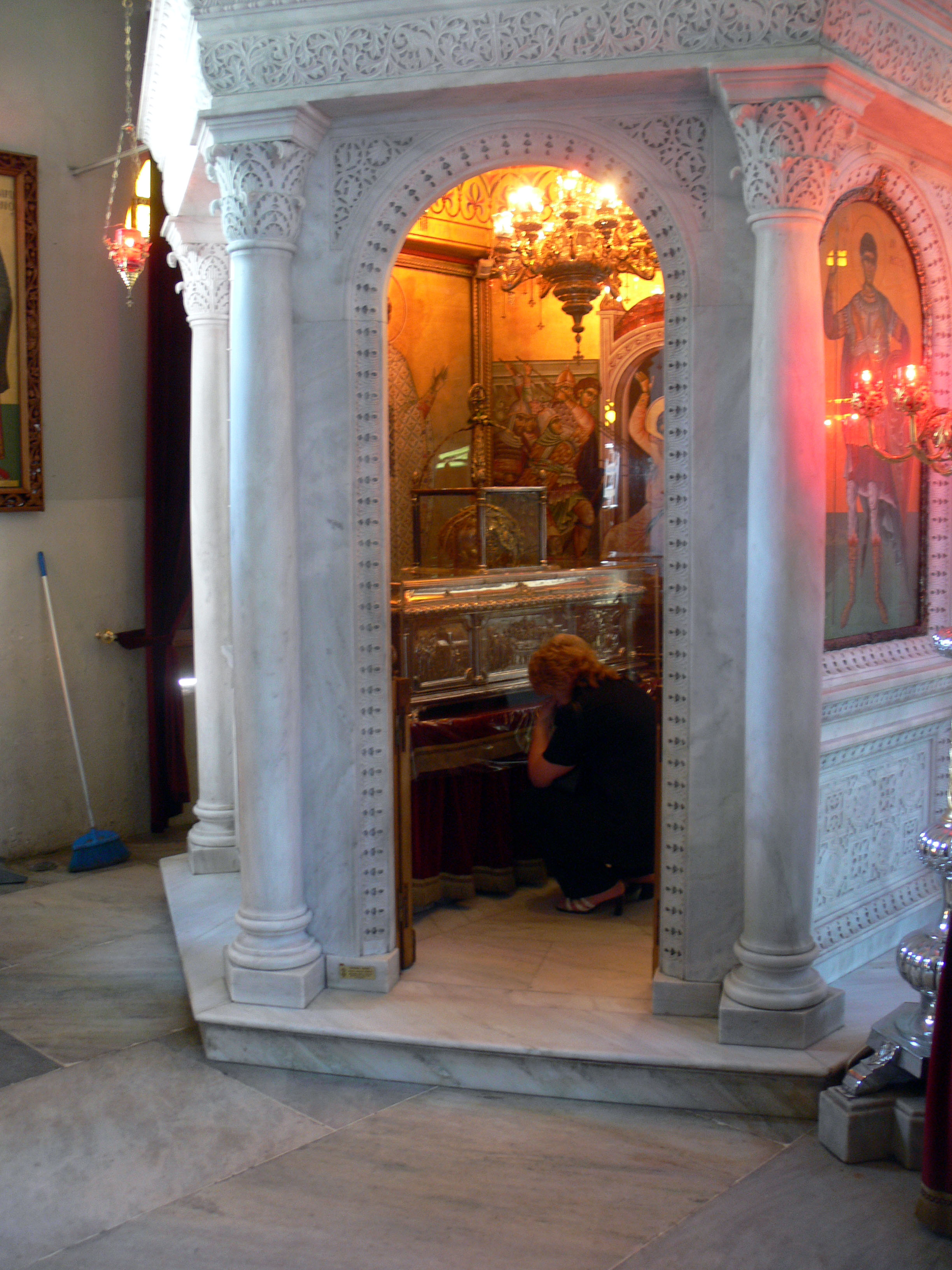 Church of Saint Demetrius Patron Saint of Thessaloniki